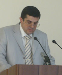 this photo was taken in the parliament